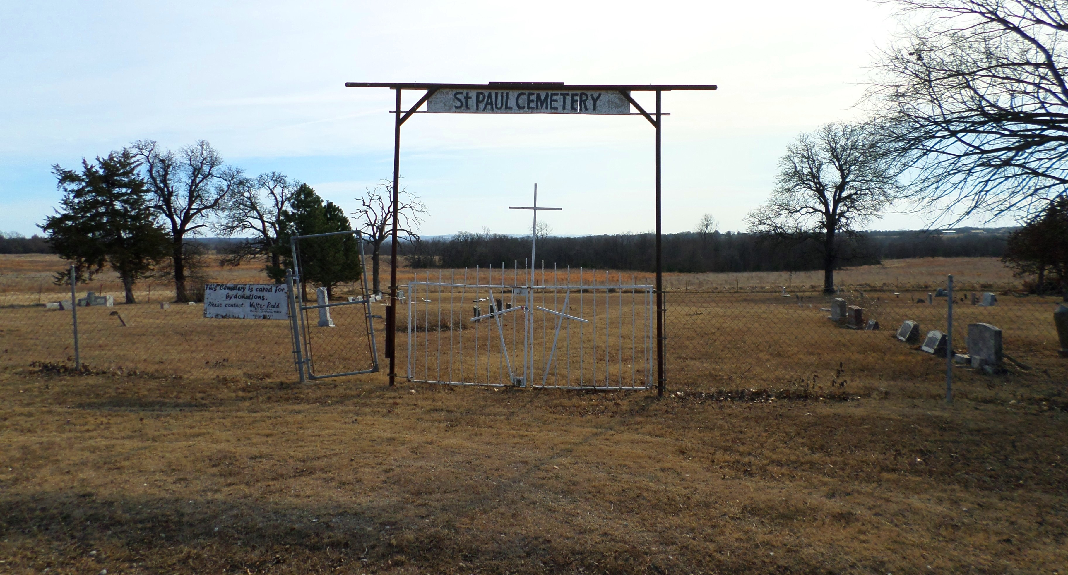 The St. Paul Baptist Cemetery, located along E1000 Rd near Meeker, OK. The cemetery is listed on the National Register of Historic Places.